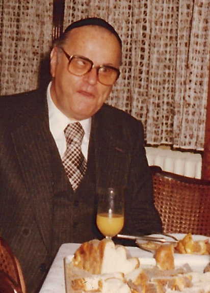 Rabbi Shlomo Levin (autumn 1978)